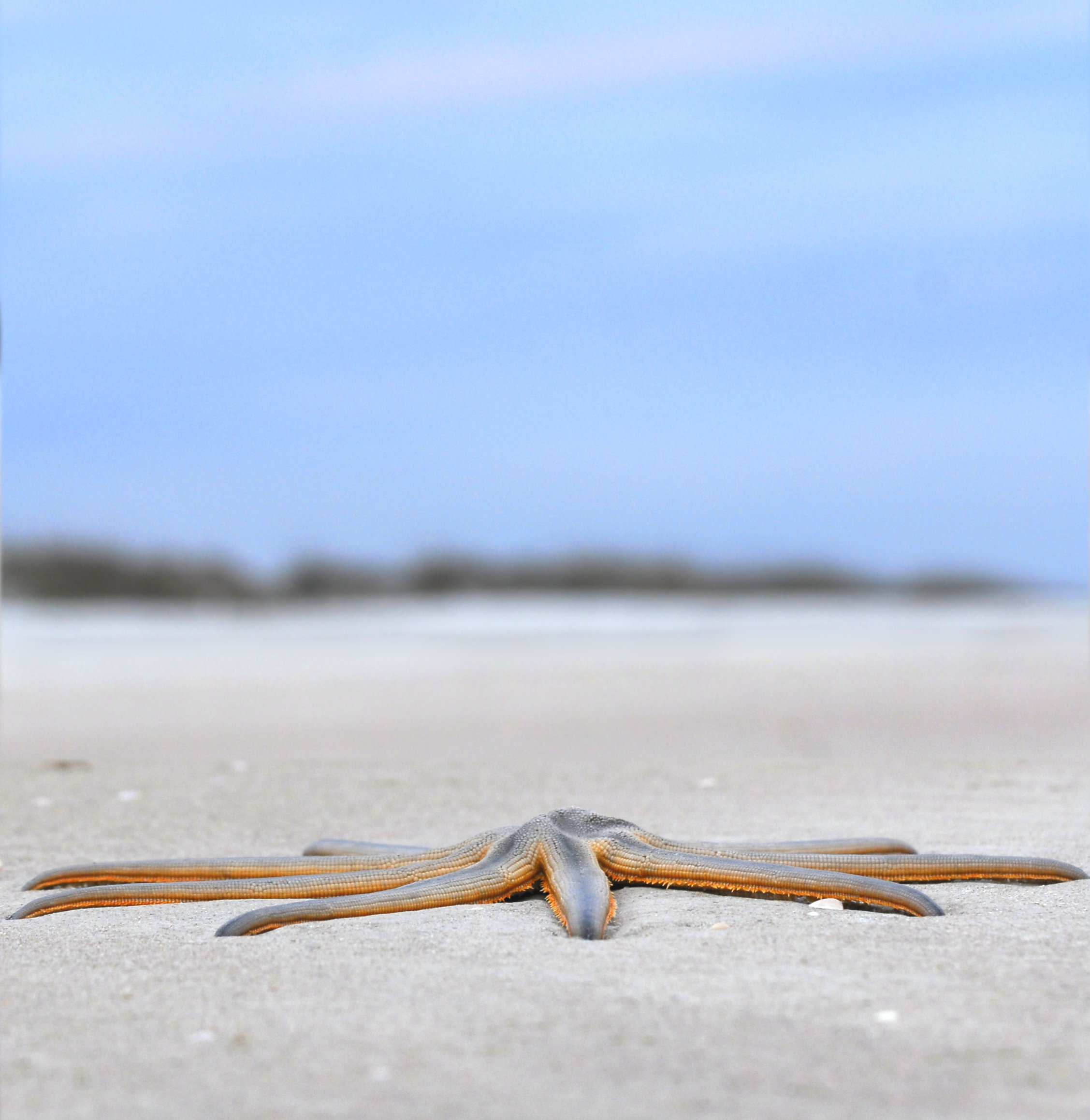 Nine-armed Sea Star (Luidia senegalensis at Smyrna Dunes Park